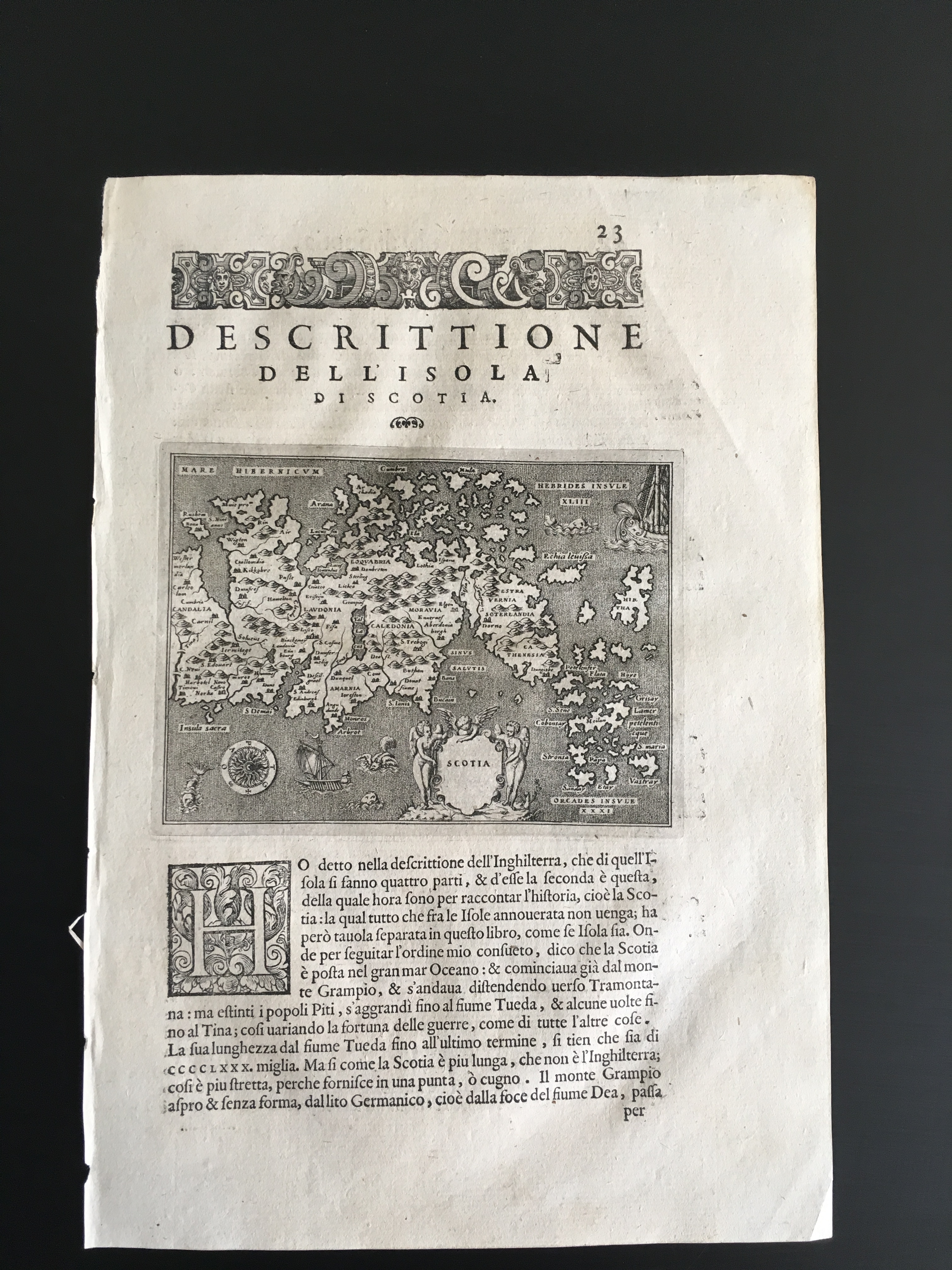 Chapter on Scotland, with map by Girolamo Porro